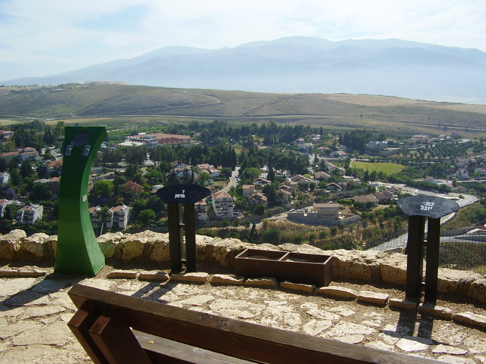 dado lookout above metula